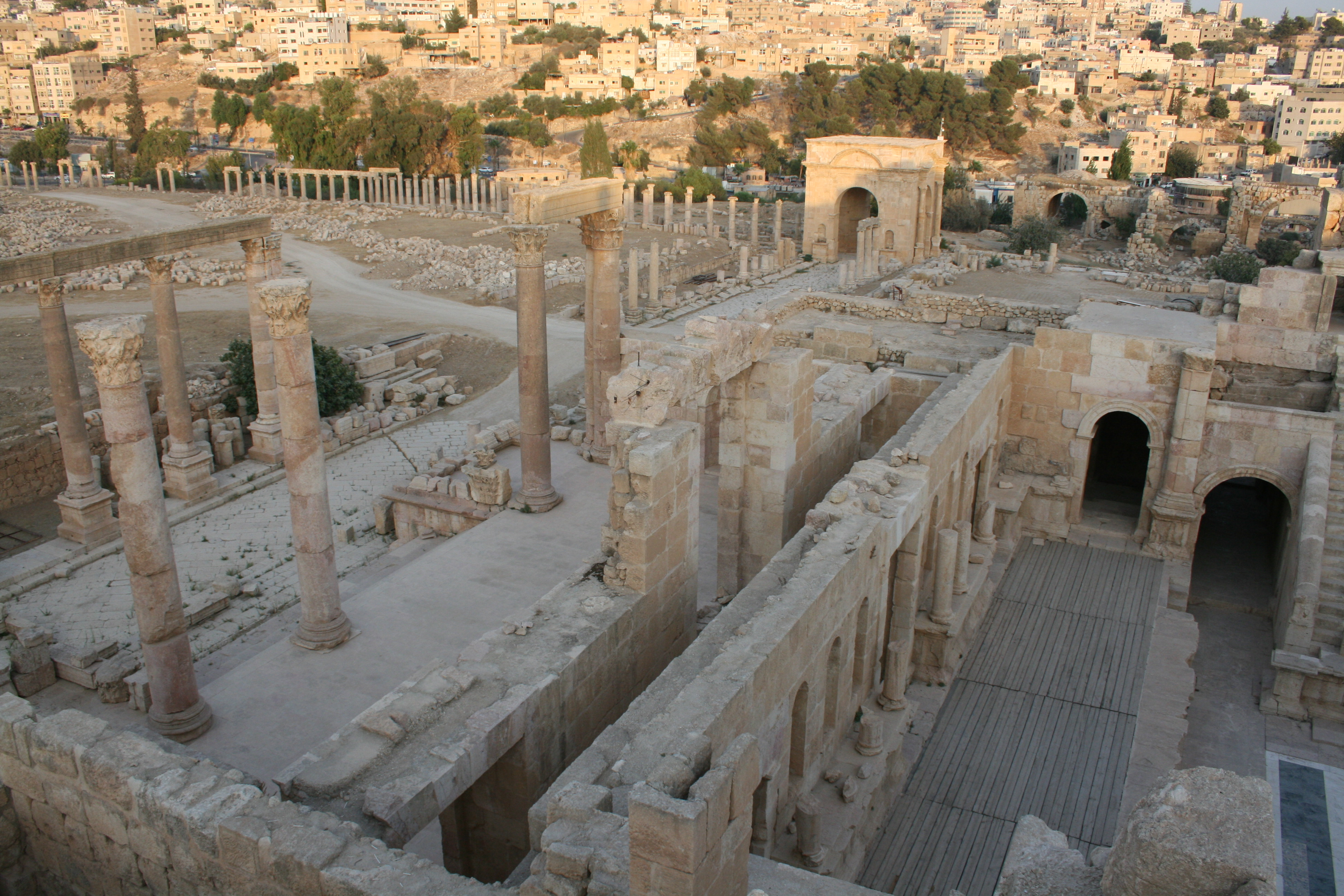 North Theater, Jerash, Jordan